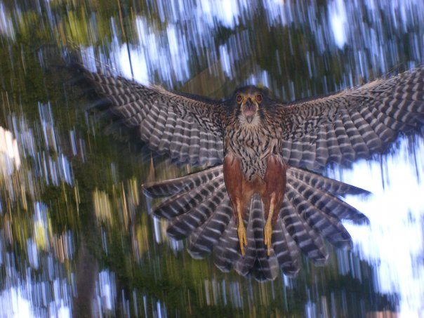 NZ Falcon, Fiordland National Park, New Zealand. Māori: Kārearea